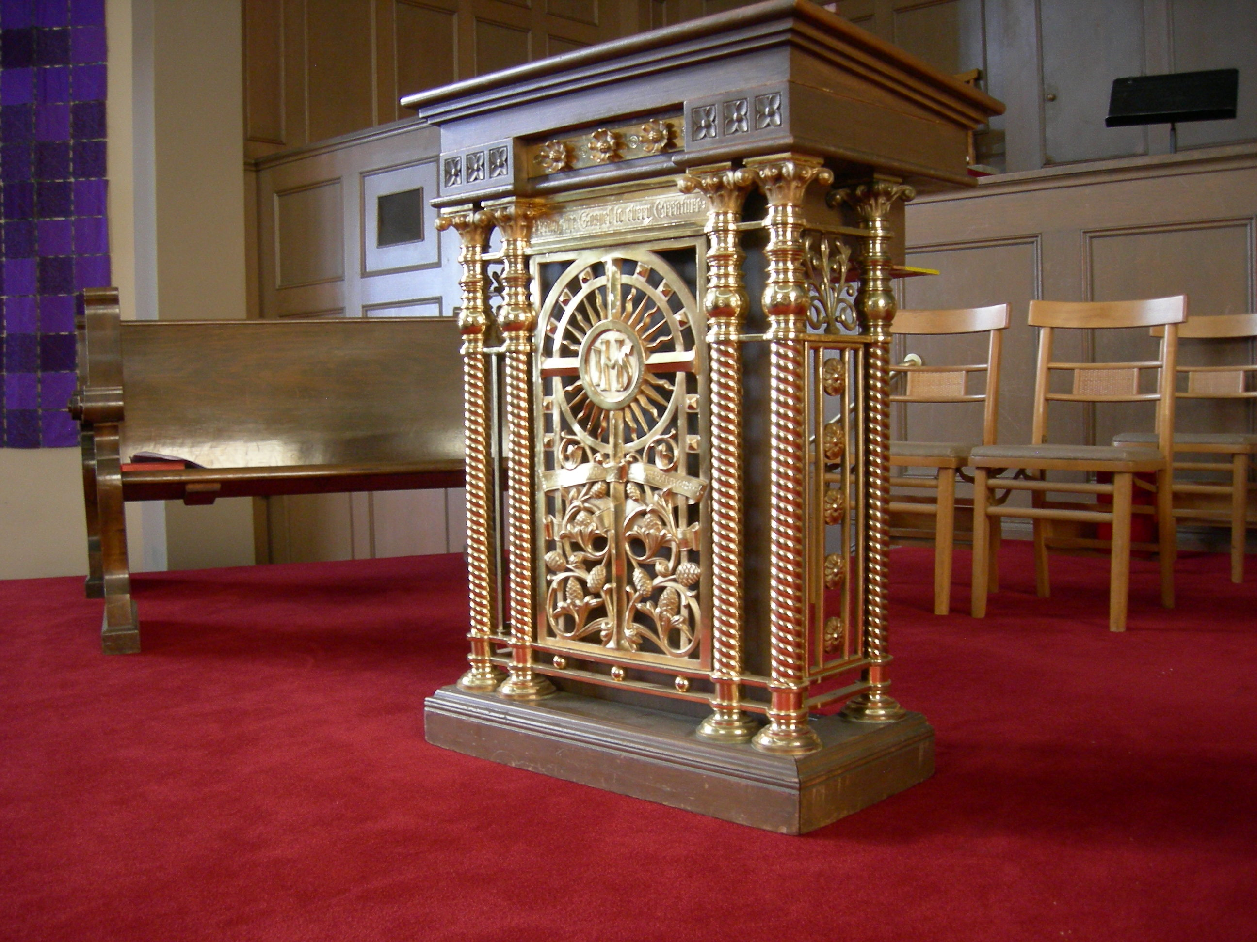 First United Methodist Church, Seattle, Washington. Lectern.